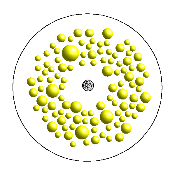 A diagrammatic section through a centrolecithal egg.